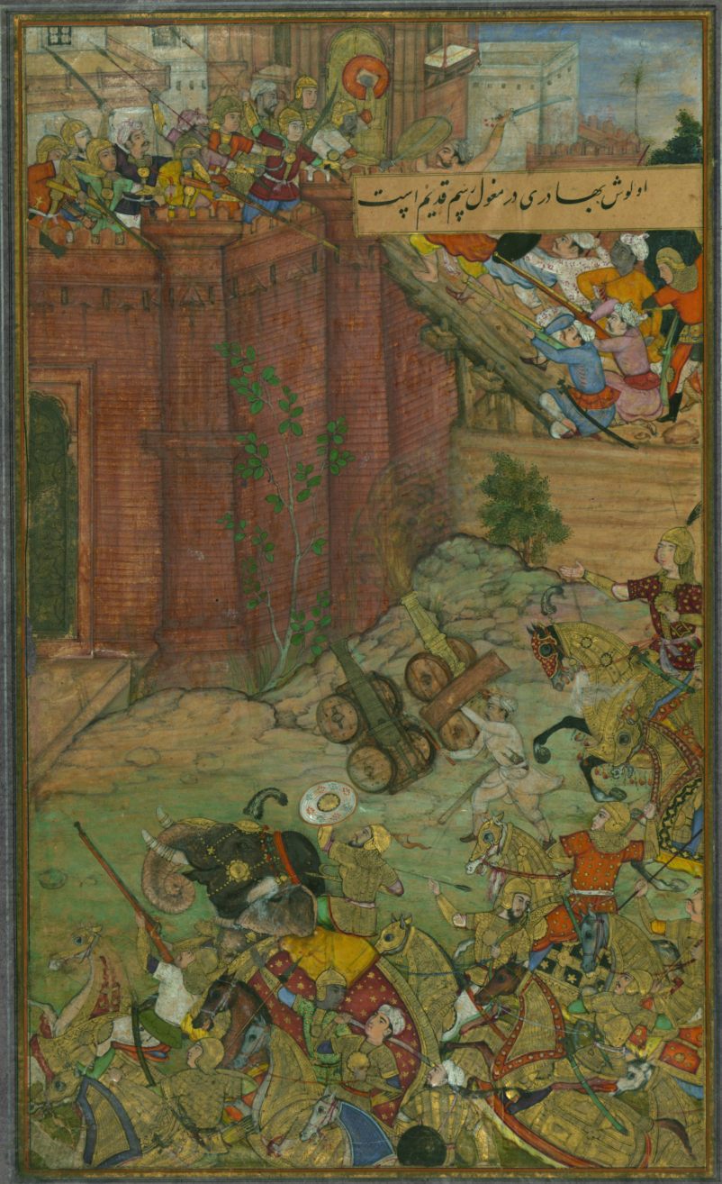 Illustrations from the Manuscript of Baburnama (Memoirs of Babur) - Late 16th Century Bāburnāma is the memoirs of Ẓahīr ud-Dīn Muḥammad Bābur (1483-1530), founder of the Mughal Empire and a great-great-great-grandson of Timur. It is an autobiographical work, originally written in the Chagatai language, known to Babur as "Turki" (meaning Turkic), the spoken language of the Andijan-Timurids. Because of Babur's cultural origin, his prose is highly Persianized in its sentence structure, morphology, and vocabulary,and also contains many phrases and smaller poems in Persian. During Emperor Akbar's reign, the work was completely translated to Persian by a Mughal courtier, Abdul Rahīm, in AH (Hijri) 998 (1589-90). These Paintings, being a fragment of a dispersed copy, was executed most probably in the late 10th AH /16th CE century. It contains 30 mostly full-page miniatures in fine Mughal style by at least two different artists. Another major fragment of this work (57 folios) is in the State Museum of Eastern Cultures, Moscow.